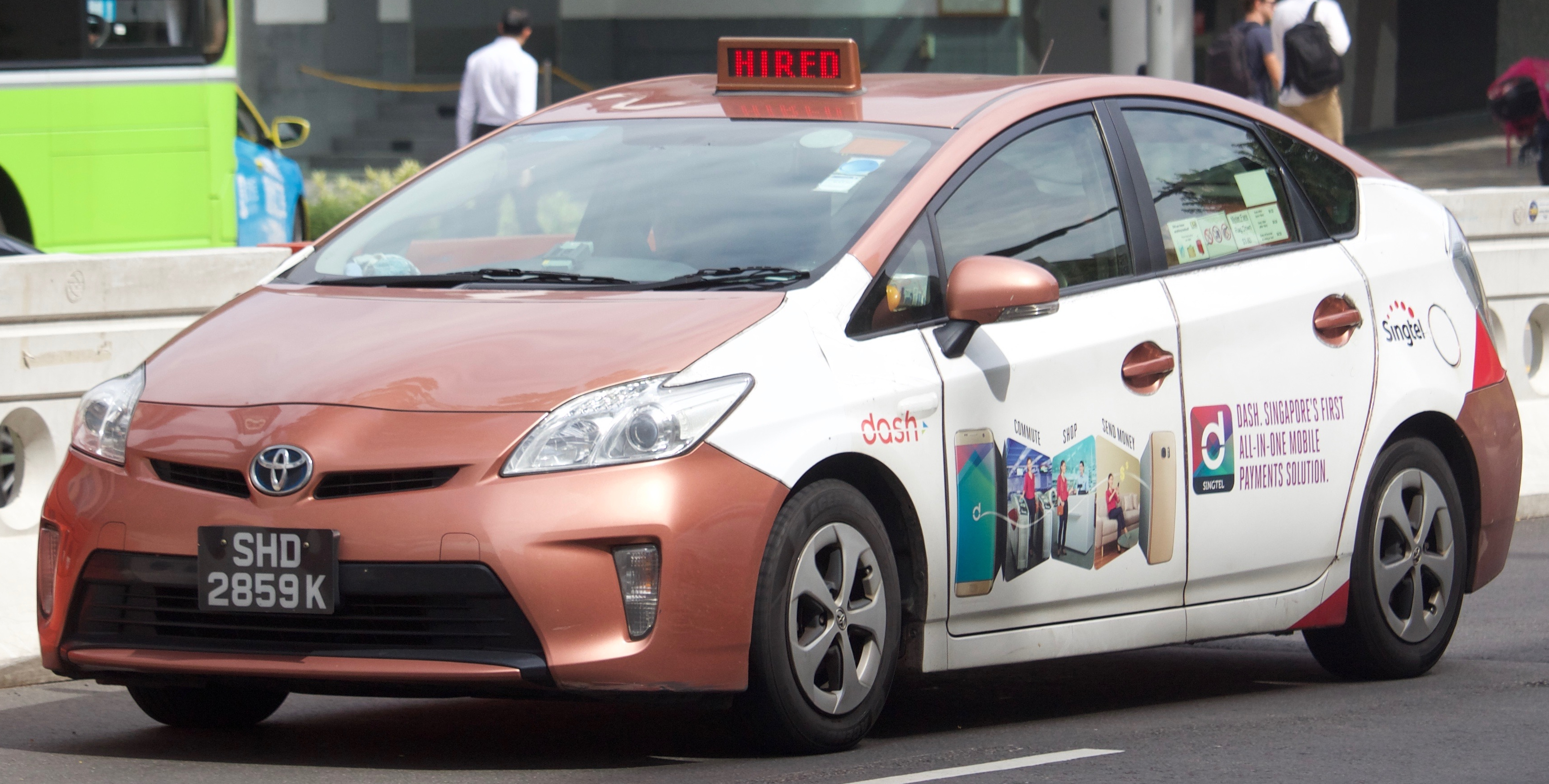 2011-2015 Toyota Prius (ZVW30R) Hybrid liftback, Prime Taxis. Photographed in Singapore.